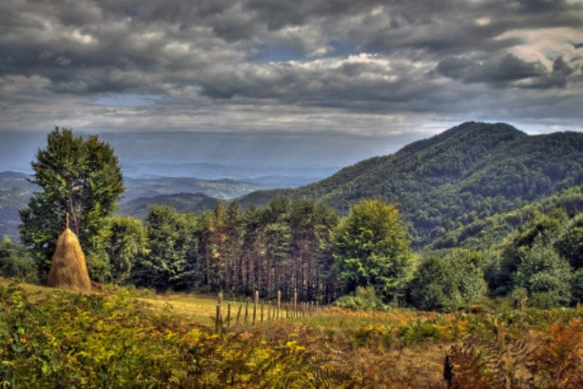 Aladag Peak